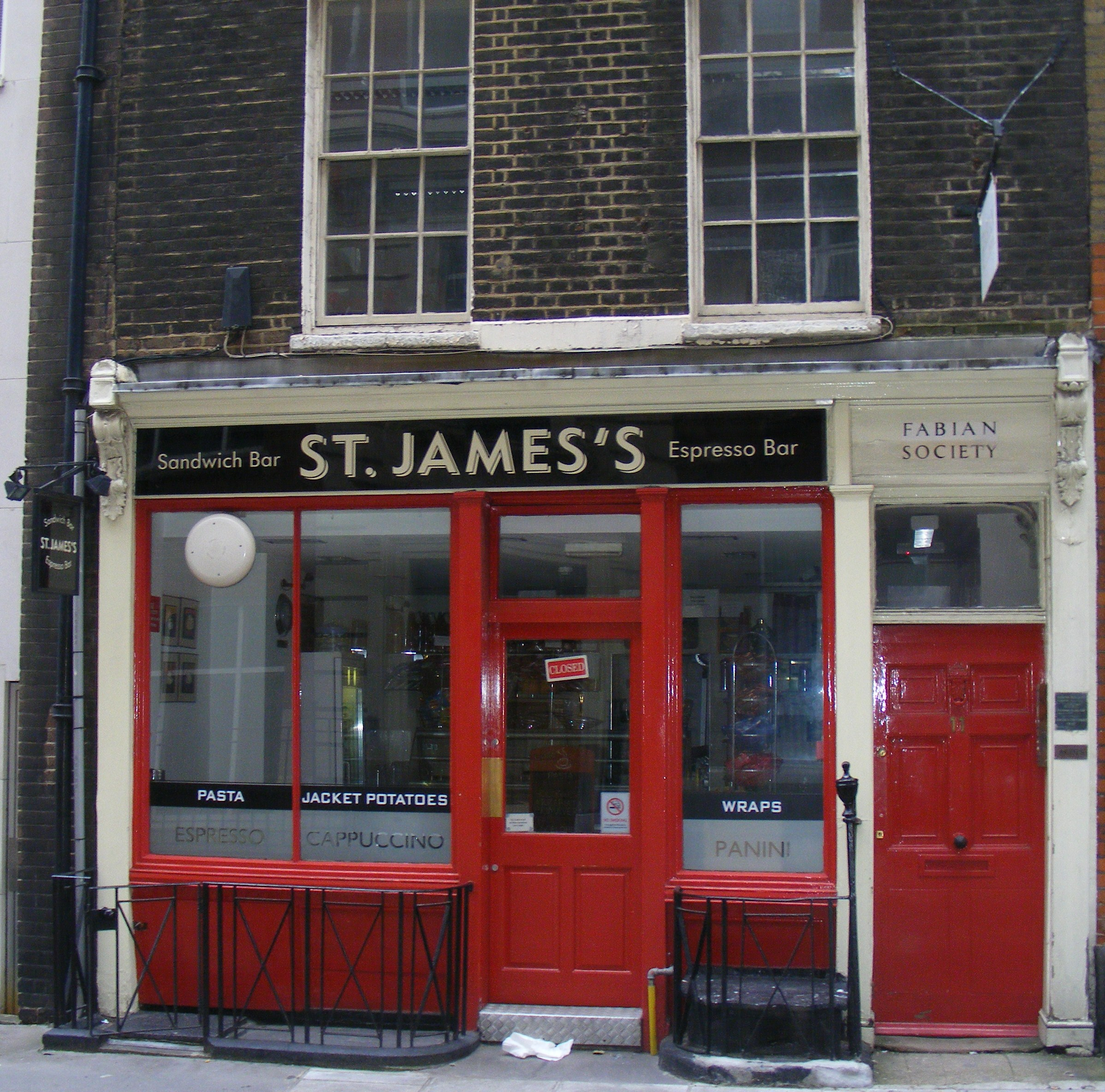 St James's Expresso Bar and The Fabian Society Dartmouth Street. The Fabian Society was founded on January 4, 1884 in London as an offshoot of a society founded in 1883 called The Fellowship of the New Life. Read more: Fabian Society - History, Legacy, Current and recent activities, Current Organisational Structure, Recommendations for reform of the British monarchy